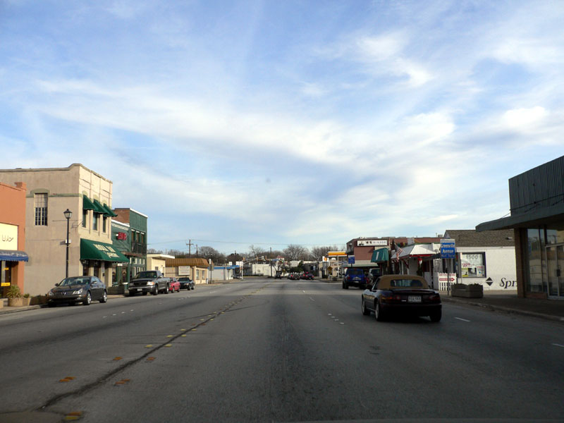 Main Street (Beltline) in Richardson, Texas, United States of America; heading east from Central Expressway towards Greenville Avenue. Photographed 14 January 2006 by Nathan Beach ( in Richardson, Texas.